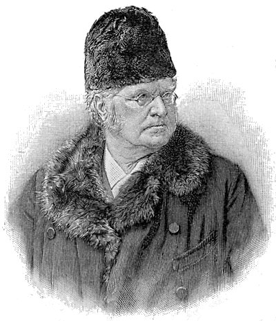 Bjørnstjerne Bjørnson (1832–1910), a Norwegian poet and the 1903 Nobel Prize in Literature laureate